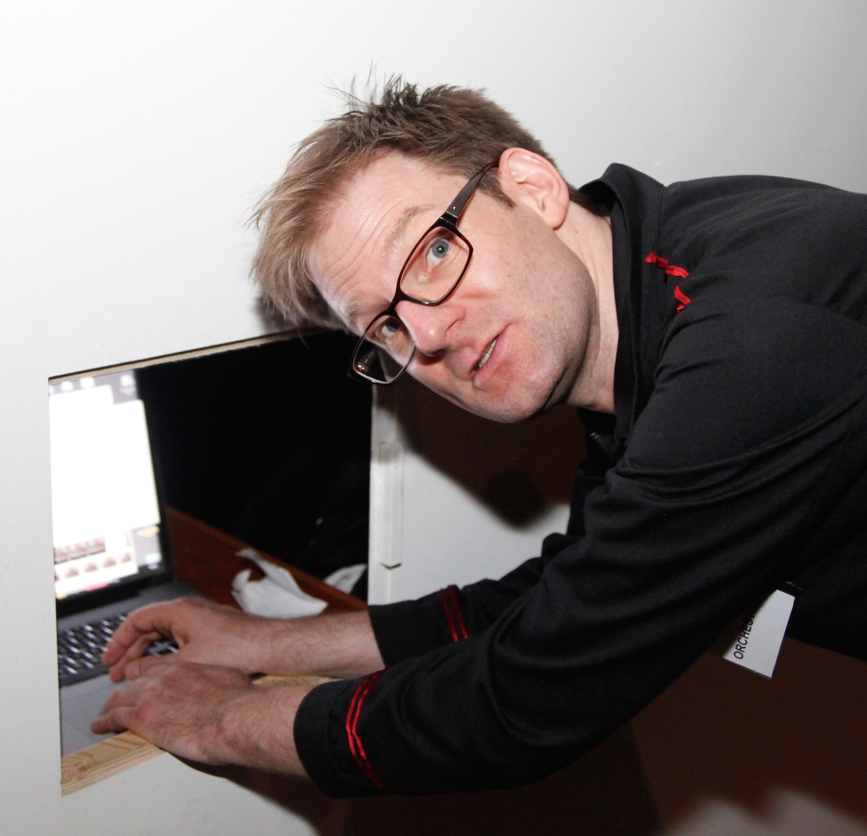 Playwright, Stagedesign, Director Lukas Bangerter